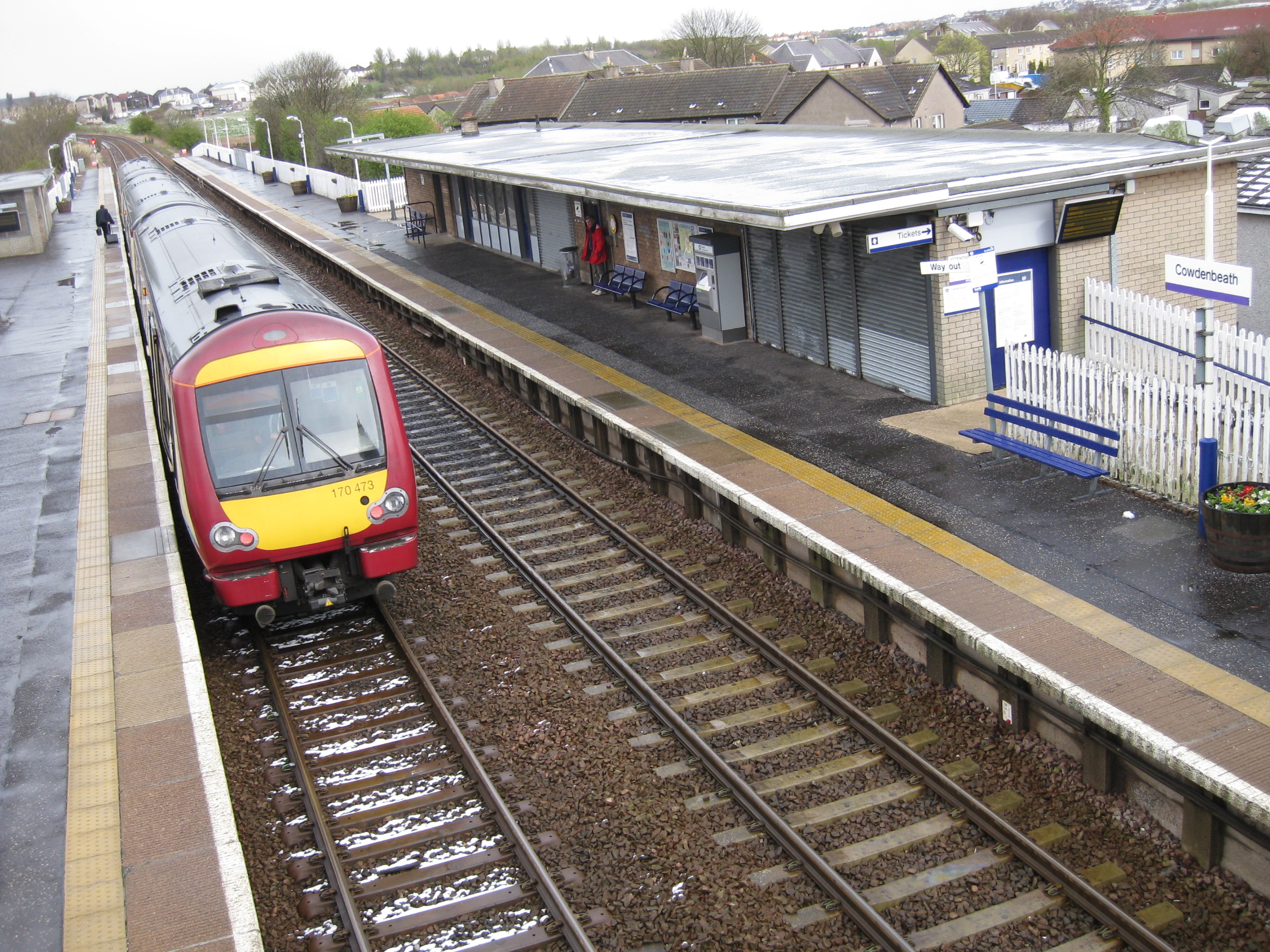 Rail station viewed from the footbridge